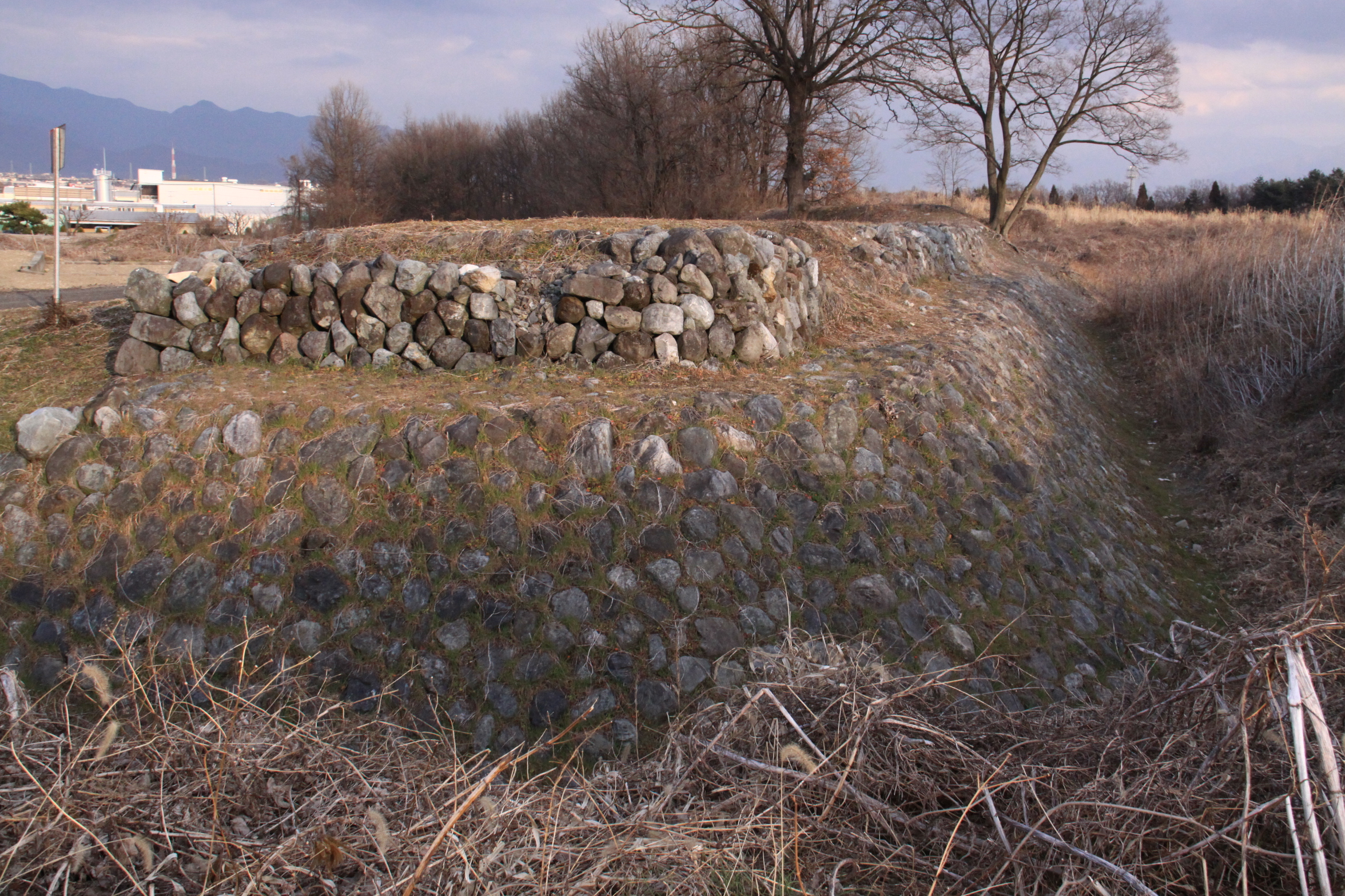 Tatsuoka-shougigashira is the ruins of embankment.